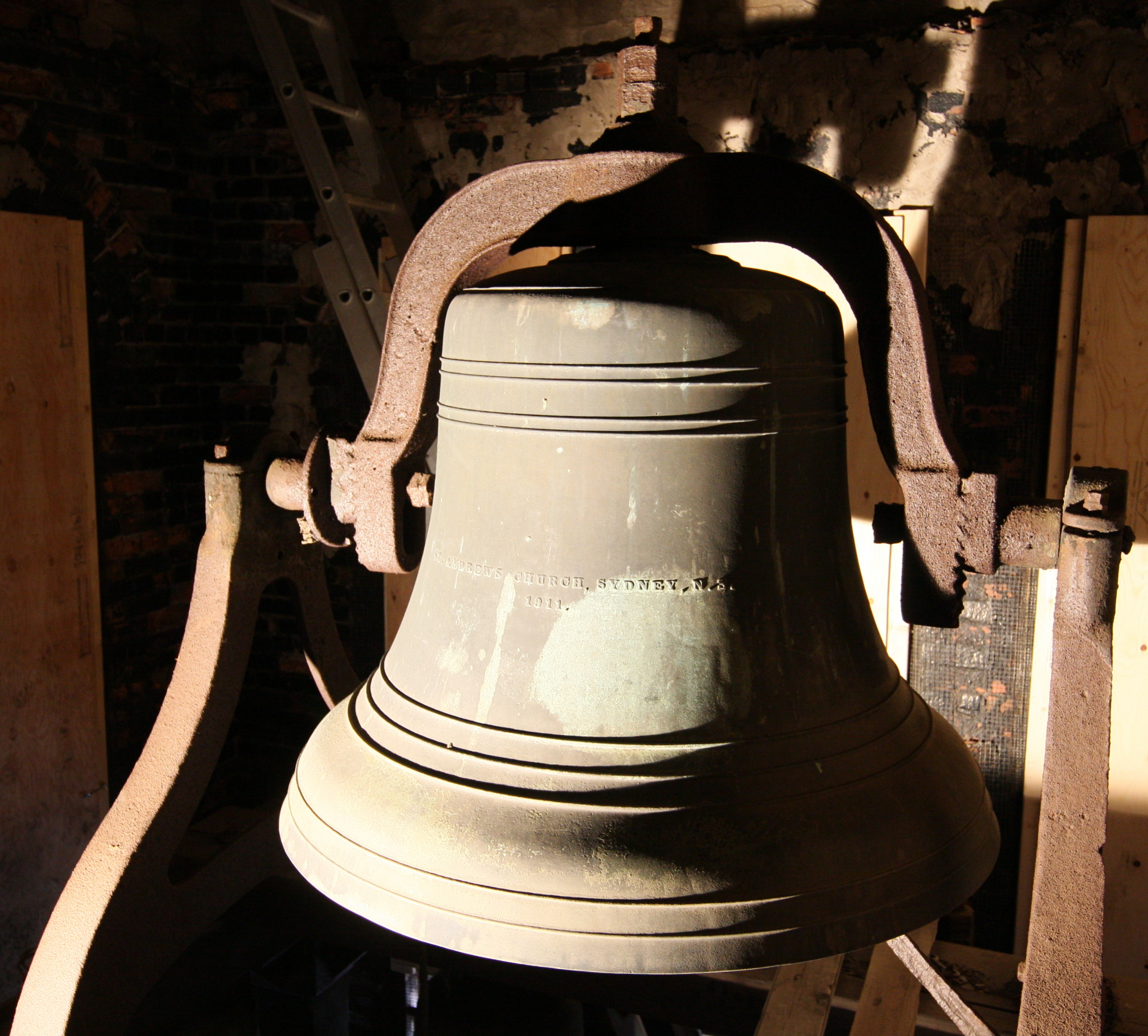 This is an image of the bronze Tenor Bell, the heaviest bell in the Highland Arts Theatre Chime, mounted in a rotary iron yoke on iron stands above the main chime frame. This bell is equipped with both a spring clapper and a tolling hammer so can be played either by swing chiming or by using the chimestand. This bell rings a E in the middle octave and weighs 2,050 lb (930 kg). It is inscribed "ST. ANDREWS CHURCH, SYDNEY, N.S. 1911". The Highland Arts Theatre Chime is a bell chime in the Highland Arts Theatre in Sydney, Cape Breton Regional Municipality, Nova Scotia, Canada. It consists of ten bells located in the south bell tower that are is still in use today. The bells are arranged as a traditional chime of 10 bells and are played from the ringing room immediately below the Bell Chamber in the bell tower using the original unmodified McShane "pump handle" chimestand with deep key-fall on all notes. Nine of the bells are hung fixed in position in the main chime frame in the belfry, the tenth, the heaviest bell, is mounted in a rotary iron yoke on iron stands above the main chime frame. This bell, the tenor bell, is equipped with both a spring clapper and a tolling hammer so can be played either by swing chiming or by using the chimestand. All the bells have the foundry's name cast onto their waist. The nine smaller bells are also decorated with inscriptions, quotes from Psalms from the King James Version of the Bible, cast onto their waist, while the largest bell's inscription reads "St. Andrews Church, Sydney NS". This largest bell weighs about 2,050 lb (930 kg) and its pitch is E in the middle octave. The chime is attuned to concert pitch, to the eight notes of the octave or diatonic scale with two bells added, one bell a semitone, a flat seventh, and one bell, the treble bell, above the octave. This smallest bell, at about 500 lb (230 kg), rings an F♯.